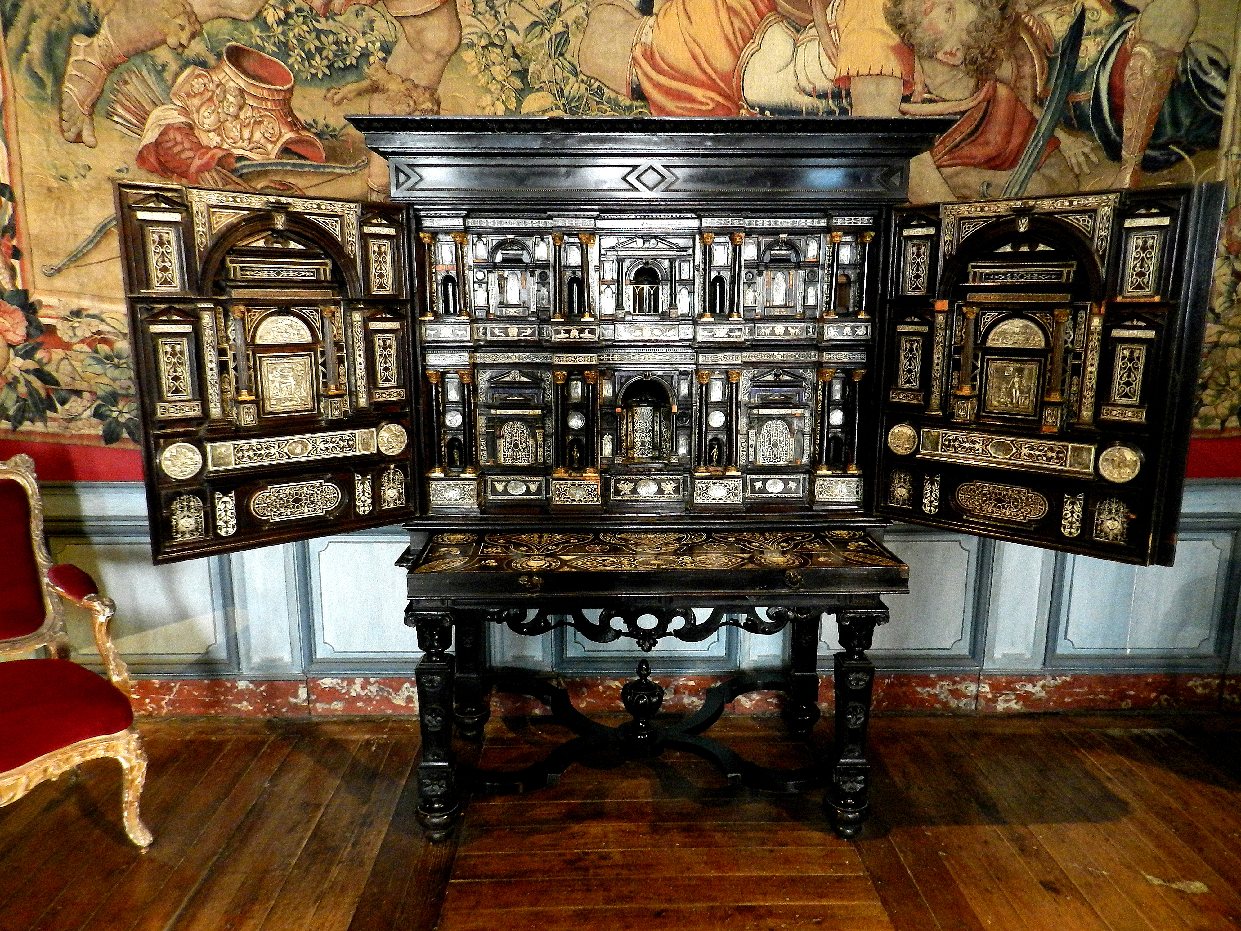 Furniture, Ussé Castle, Loire, France